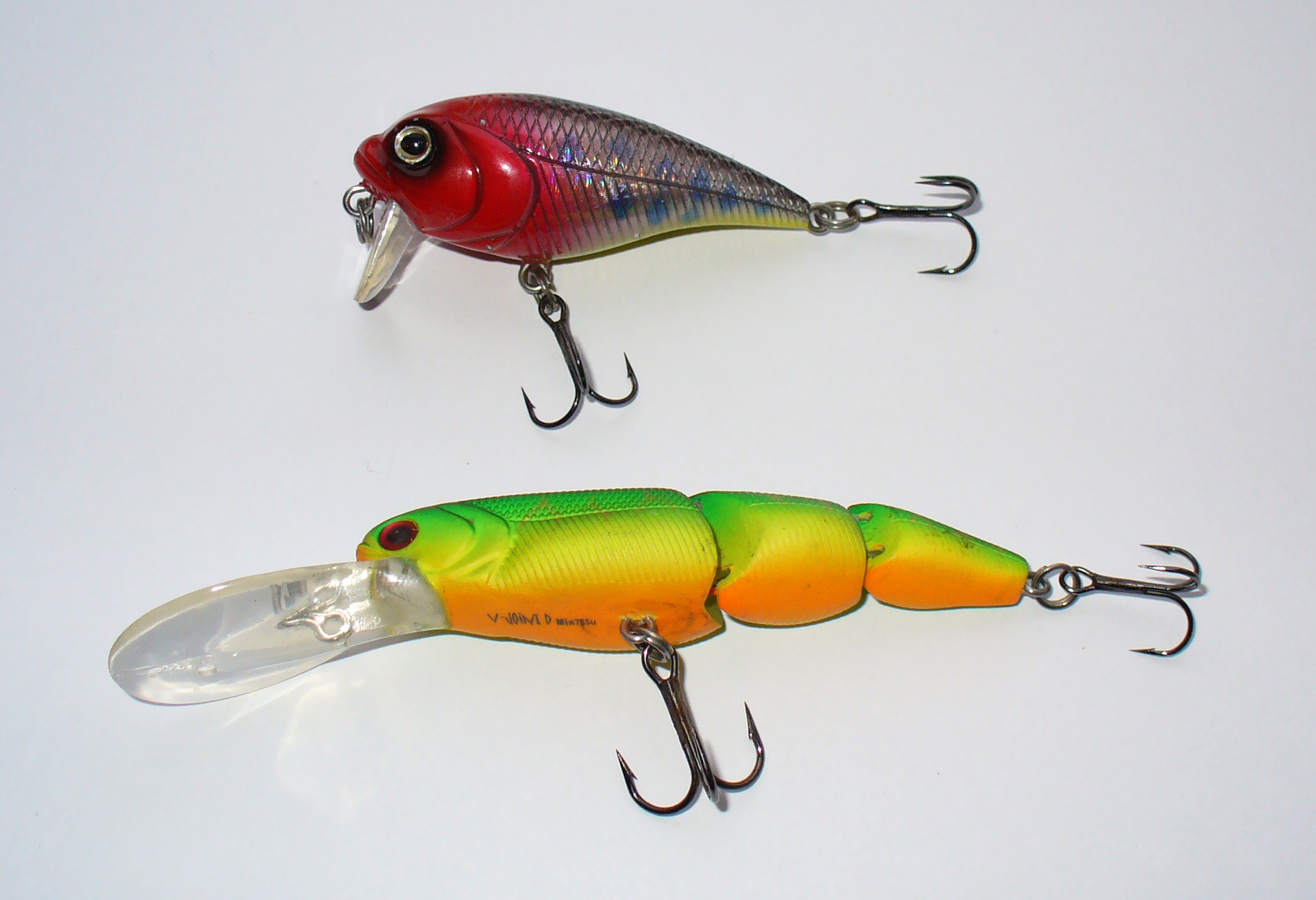 Wobbler lure (fishing equipment)